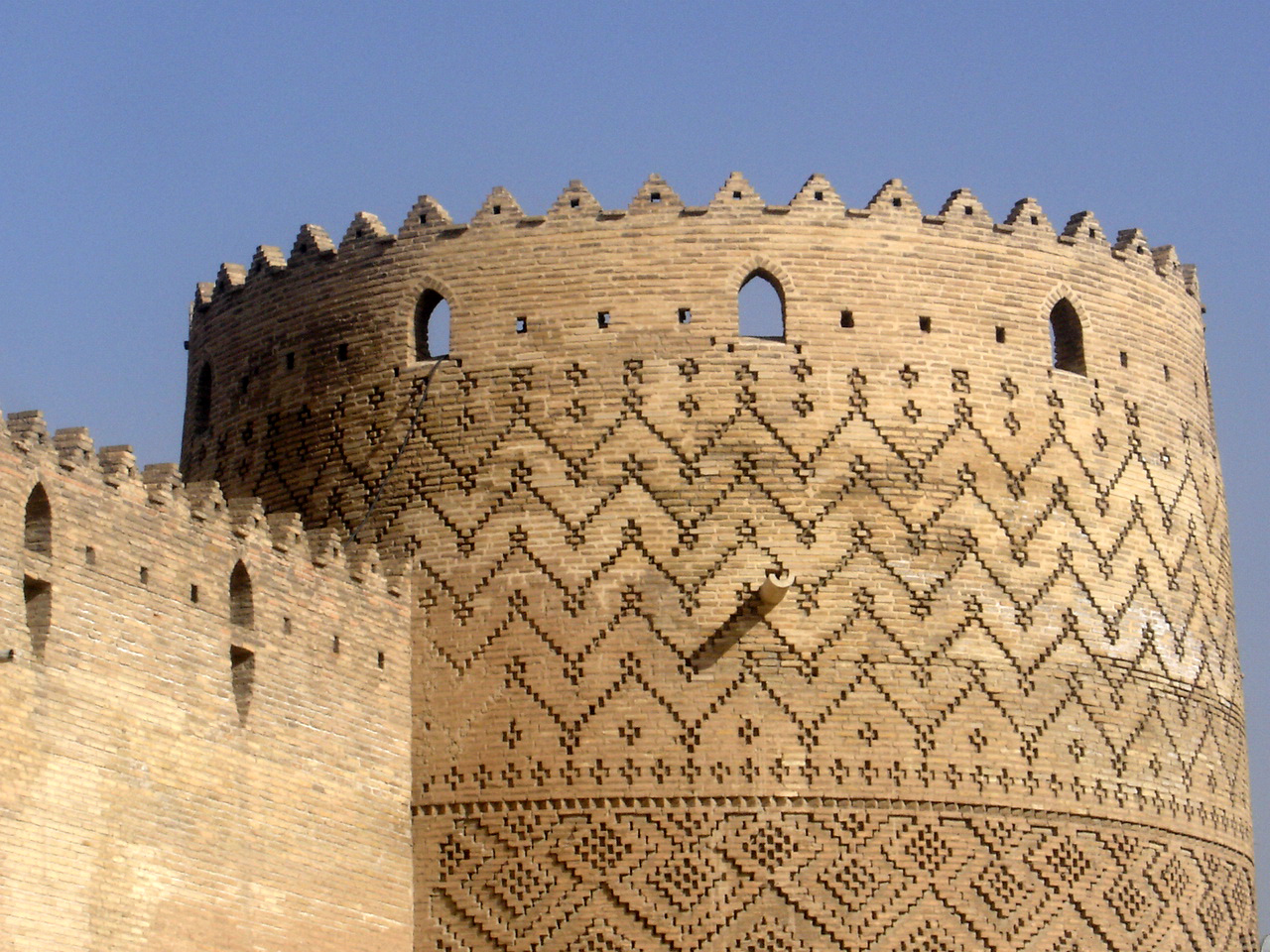 Citadel of Karim Khan, 18th century, Shiraz